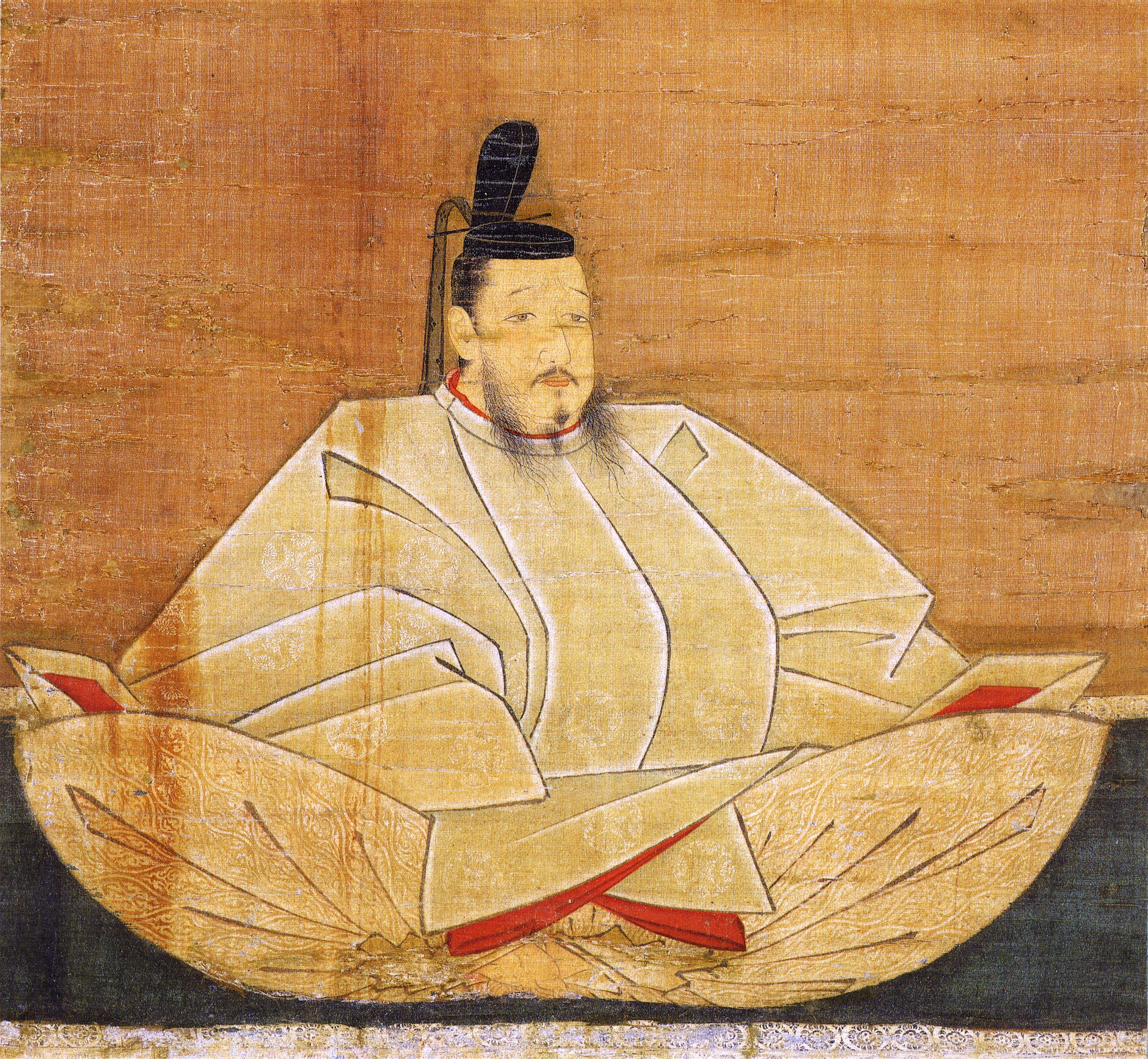 Portrait of Ashikaga Yoshimochi